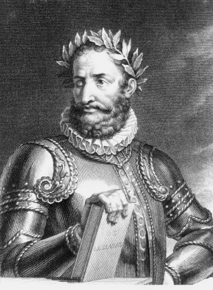 Luís de Camões, Portuguese's greatest poet..